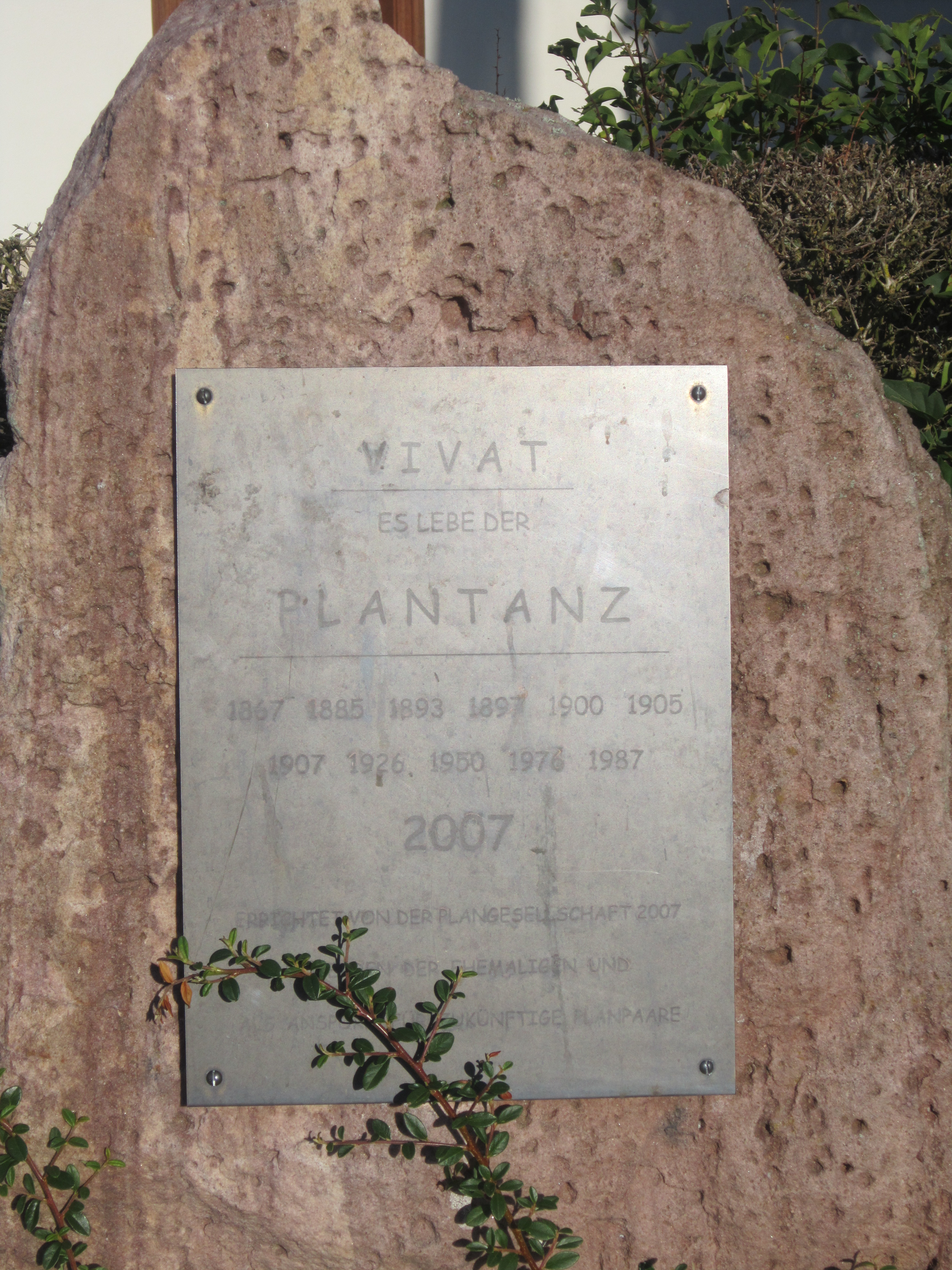 Sign commemorating the local „Plantanz“ in front of the St. Peter&Paul Church in Arnshausen, a quarter of the German spa town of Bad Kissingen in Lower Franconia.